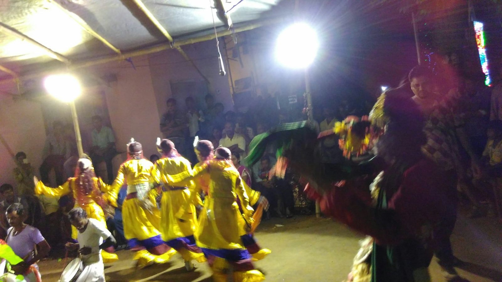 Karam puja in Jhargram